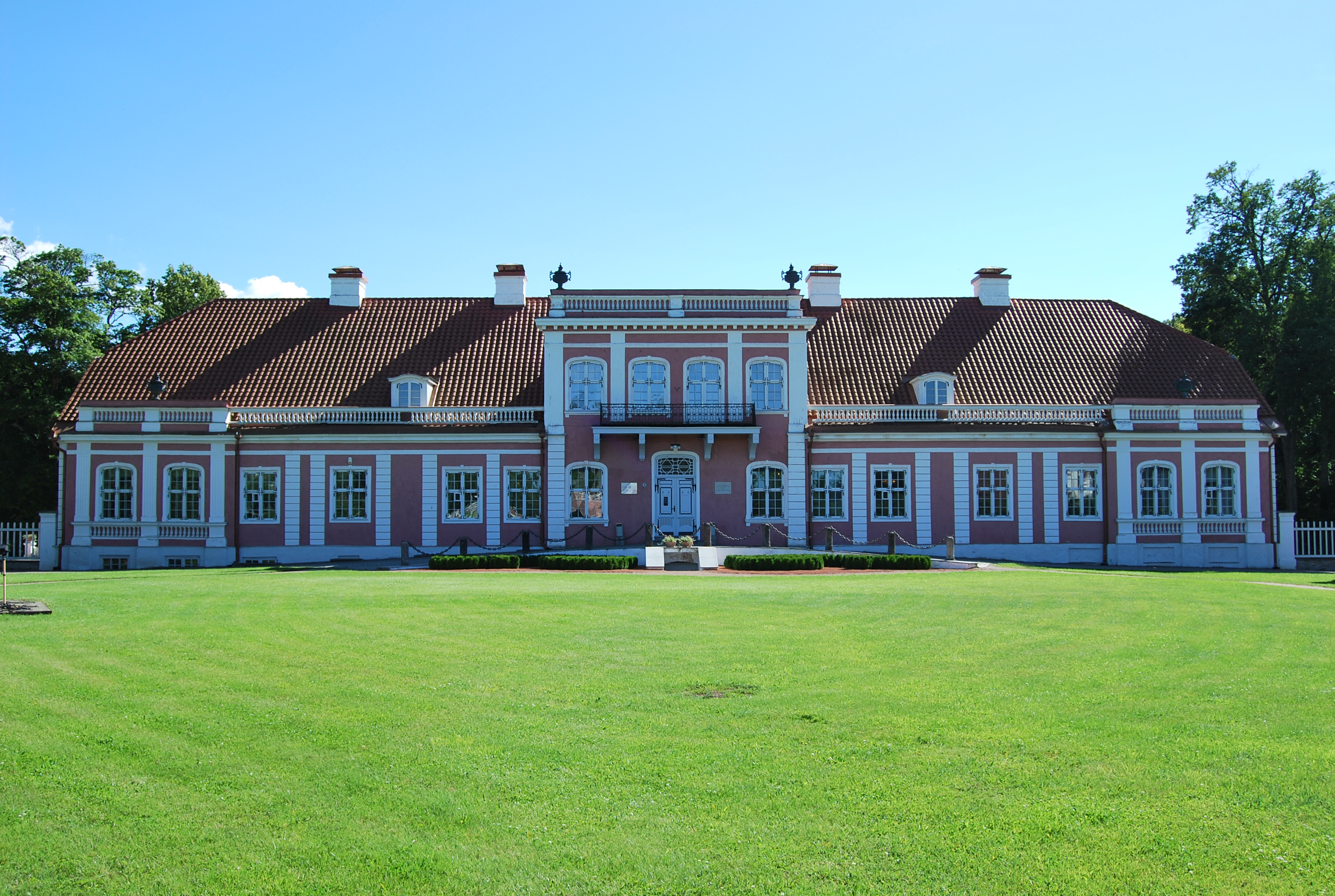 Sagadi manor, located in Lääne-Viru district, Estonia.